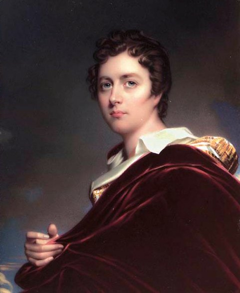 Portrait of Lord Byron, facing left holding his red velvet cloak draped over his shoulders in his right hand, gold and white coat, white shirt